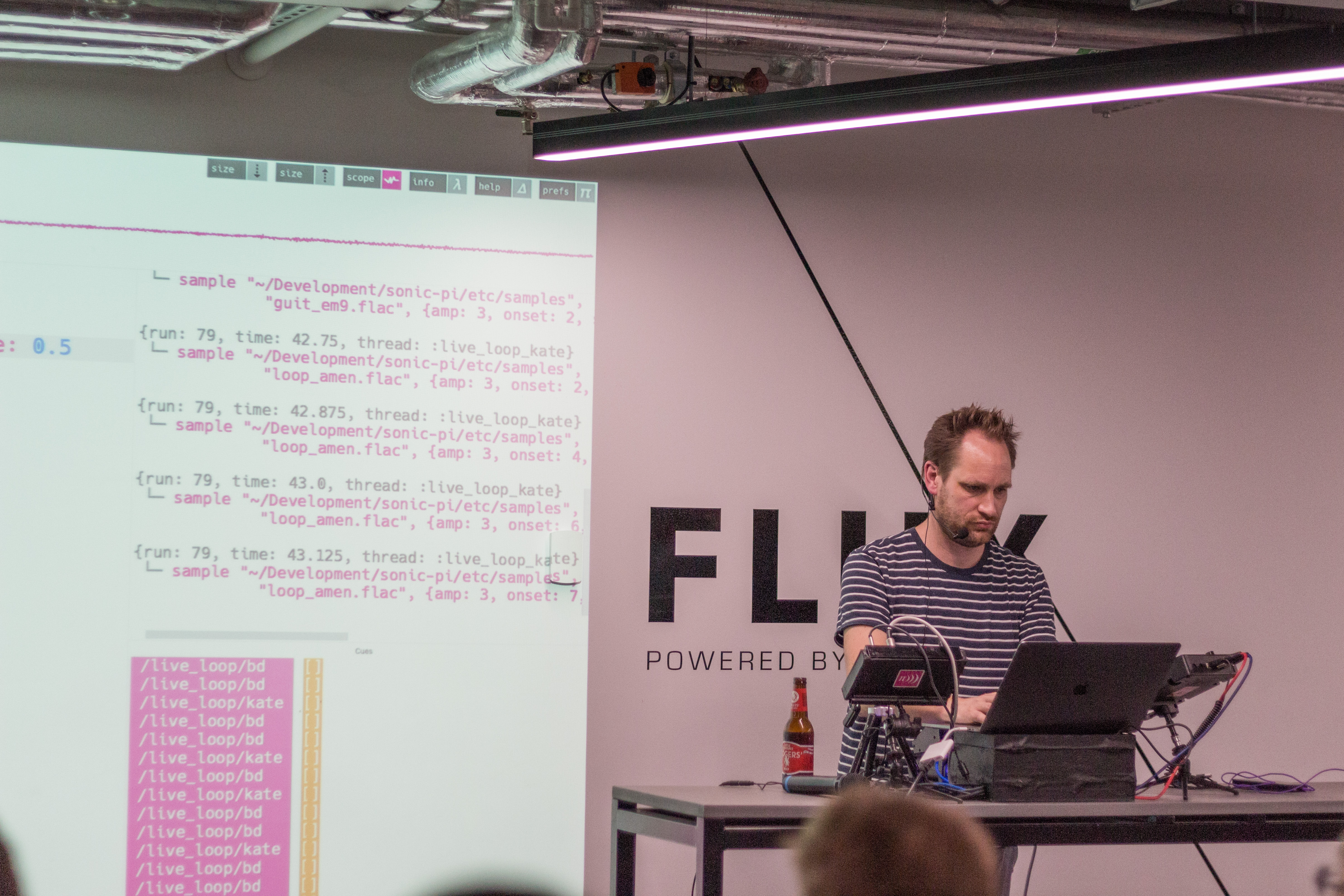 Sam Aaron demonstrating Sonic Pi at YOW! Night 2018 Perth, hosted at FLUX.